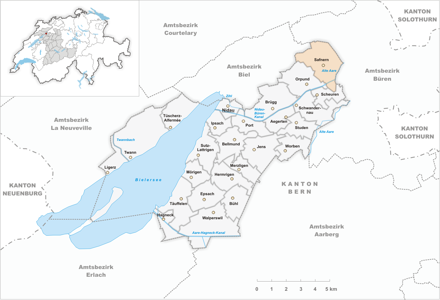 Municipality Safnern